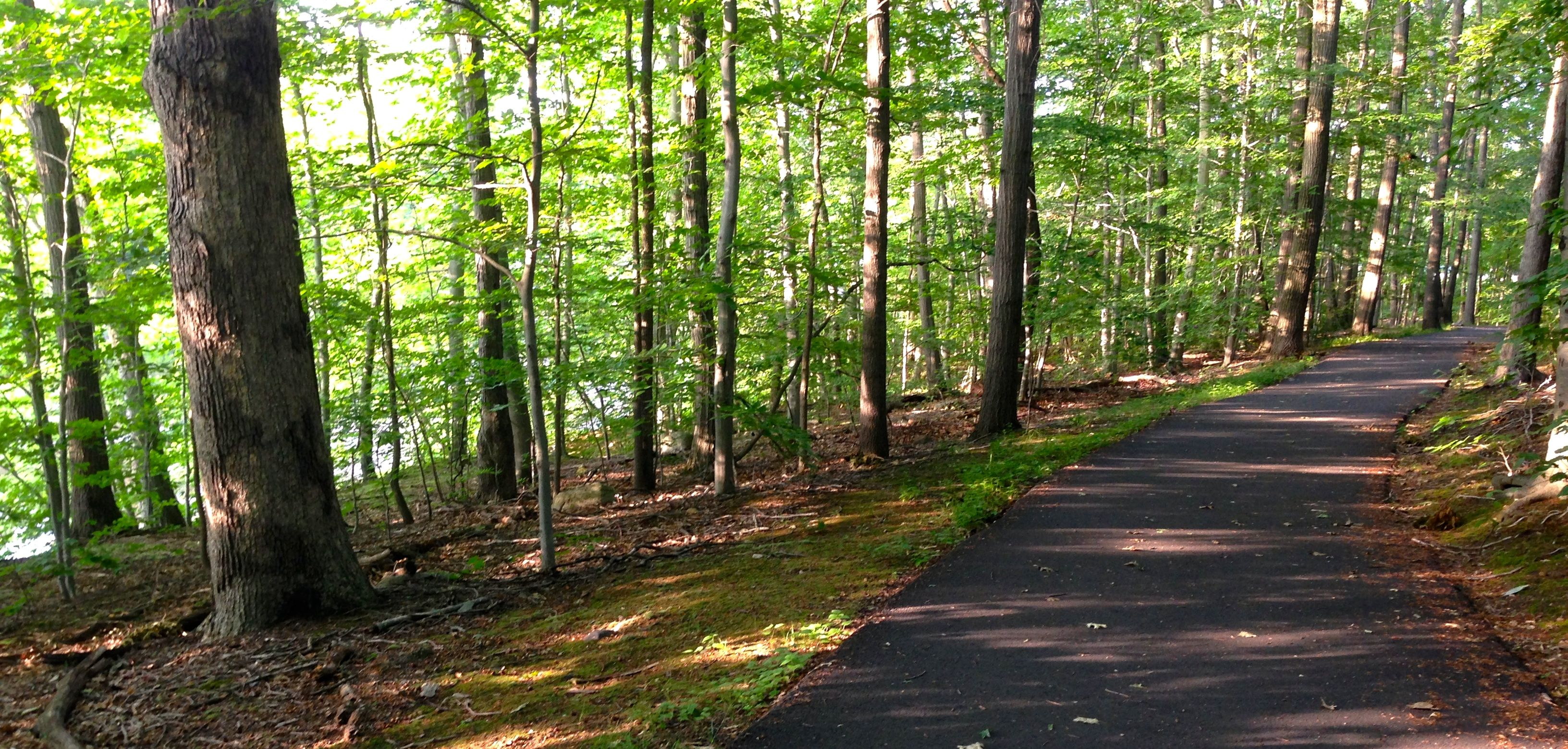 Patriot's Path off of Eden Lane, Hanover Township